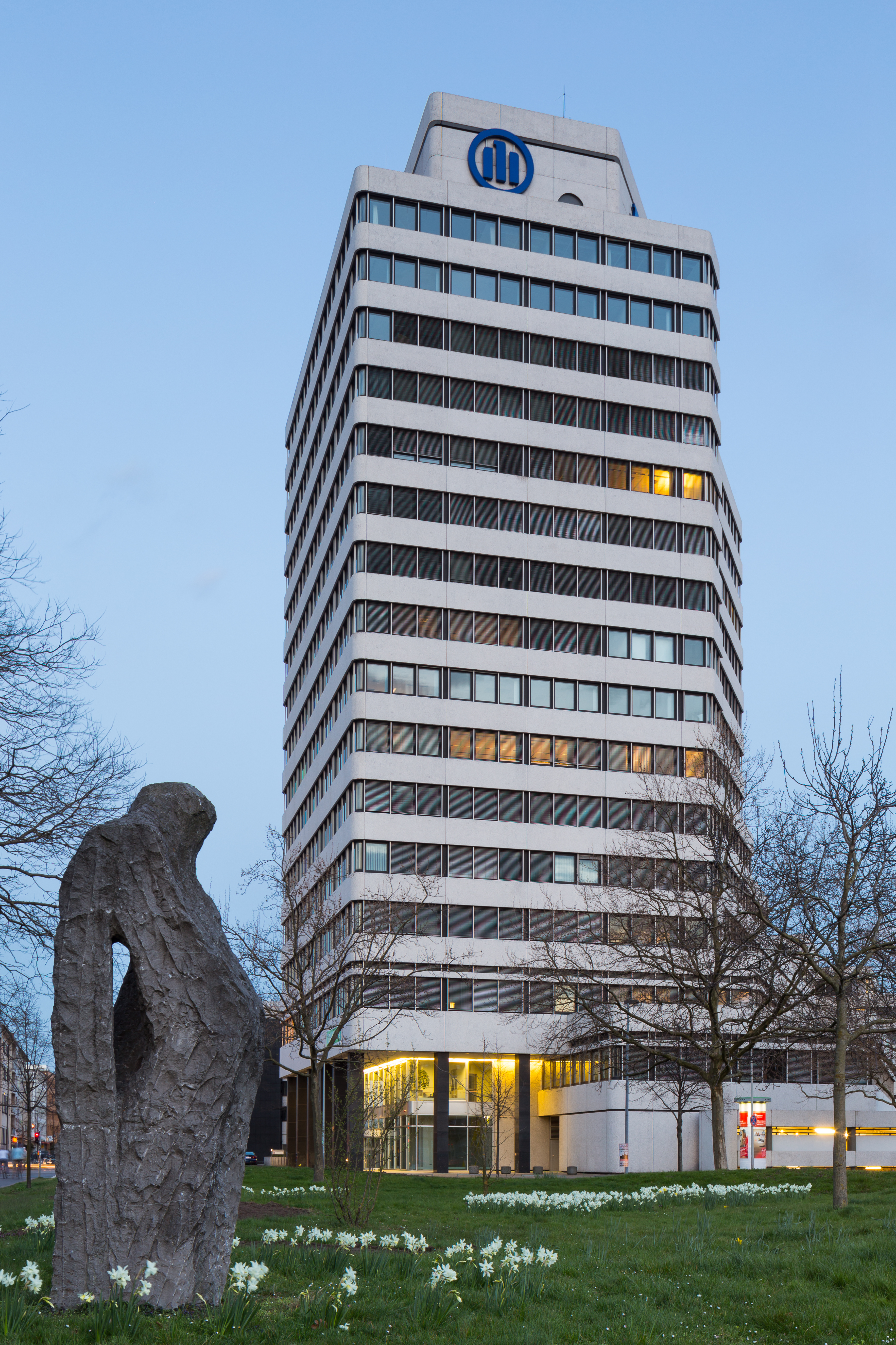 Office building Allianz-Hochhaus located between Bruehlstrasse and Lange Laube in Mitte quarter of Hannover, Germany.